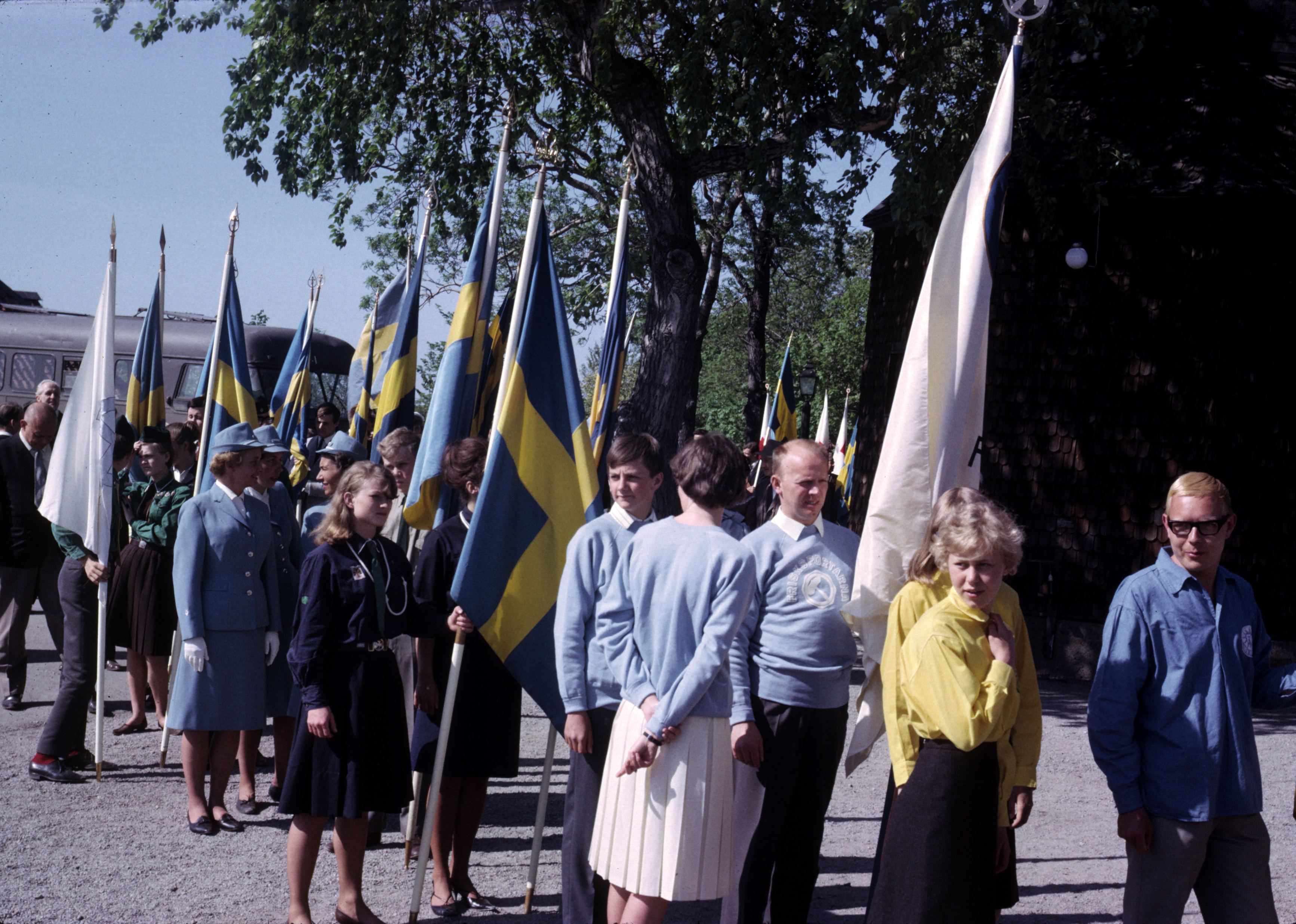 15 reps of groups for swedish flag day skansen june 6 1965